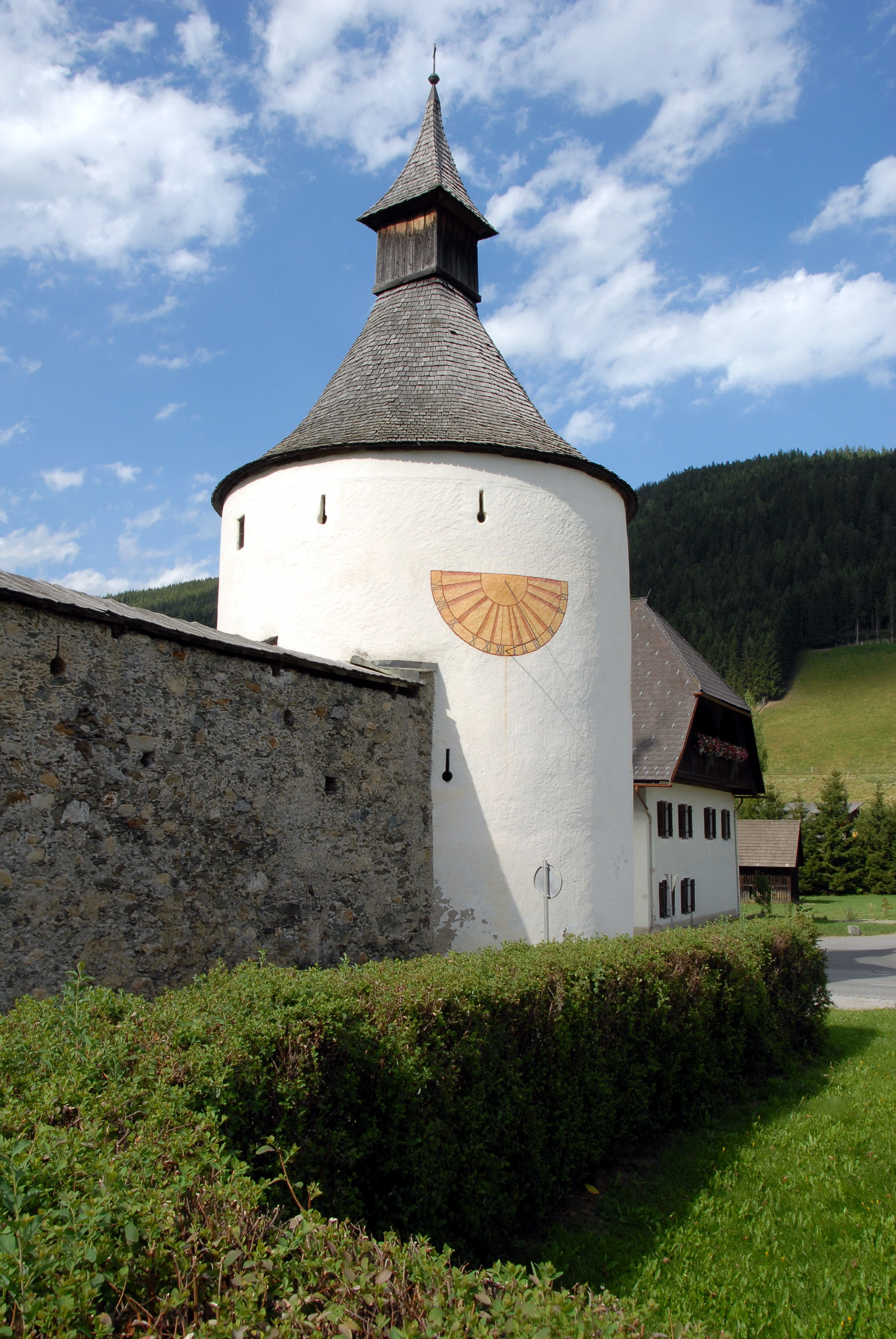 Charnel house in Gloednitz, municipality Glödnitz, district Sankt Veit an der Glan, Carinthia, Austria, EU